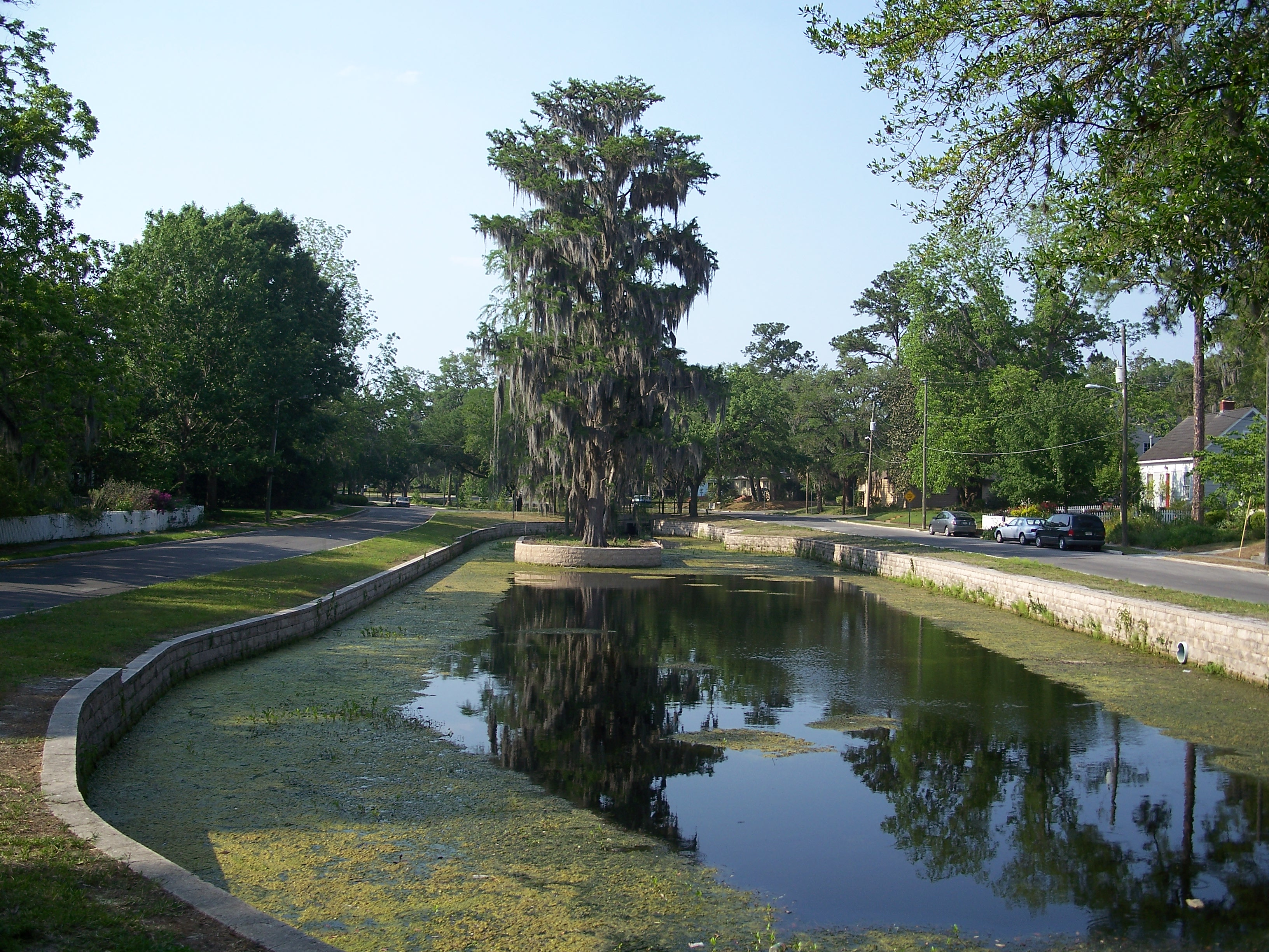 View of the Duck Pond and houses in the Northeast Gainesville Residential District in Florida. The district is on the National Register of Historic Places.